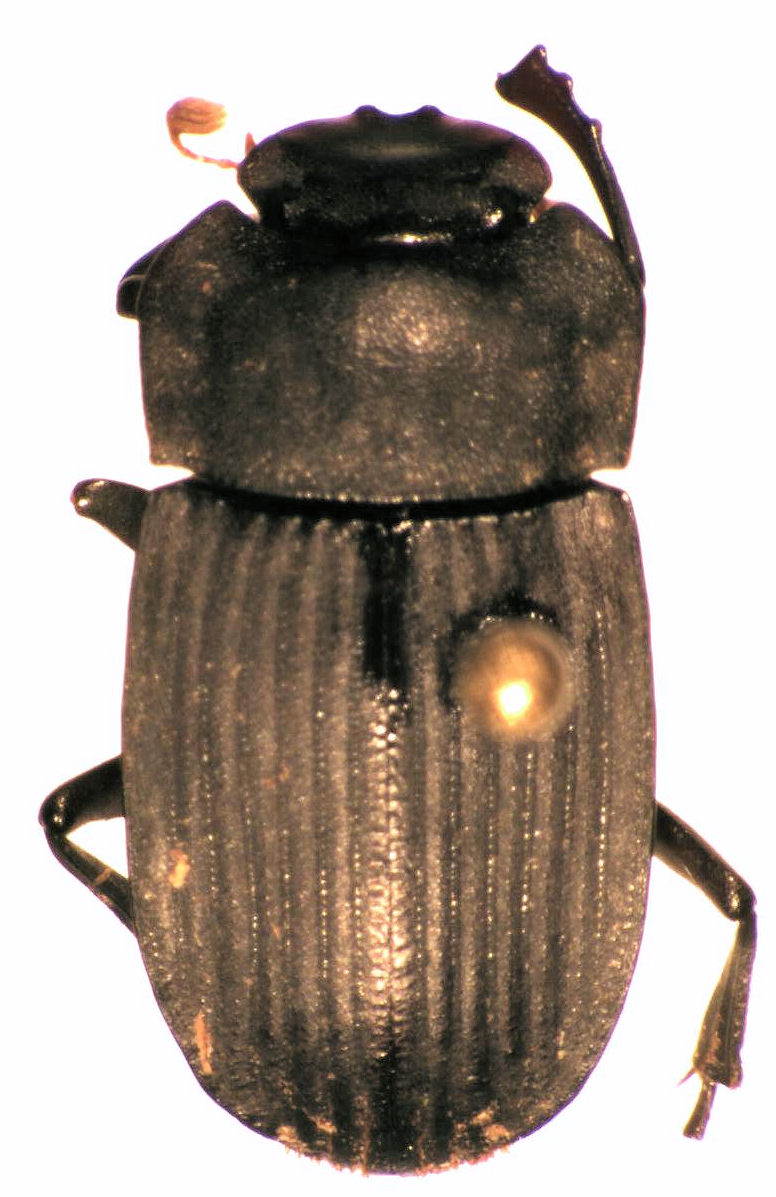 adult Saphobiamorpha maoriana